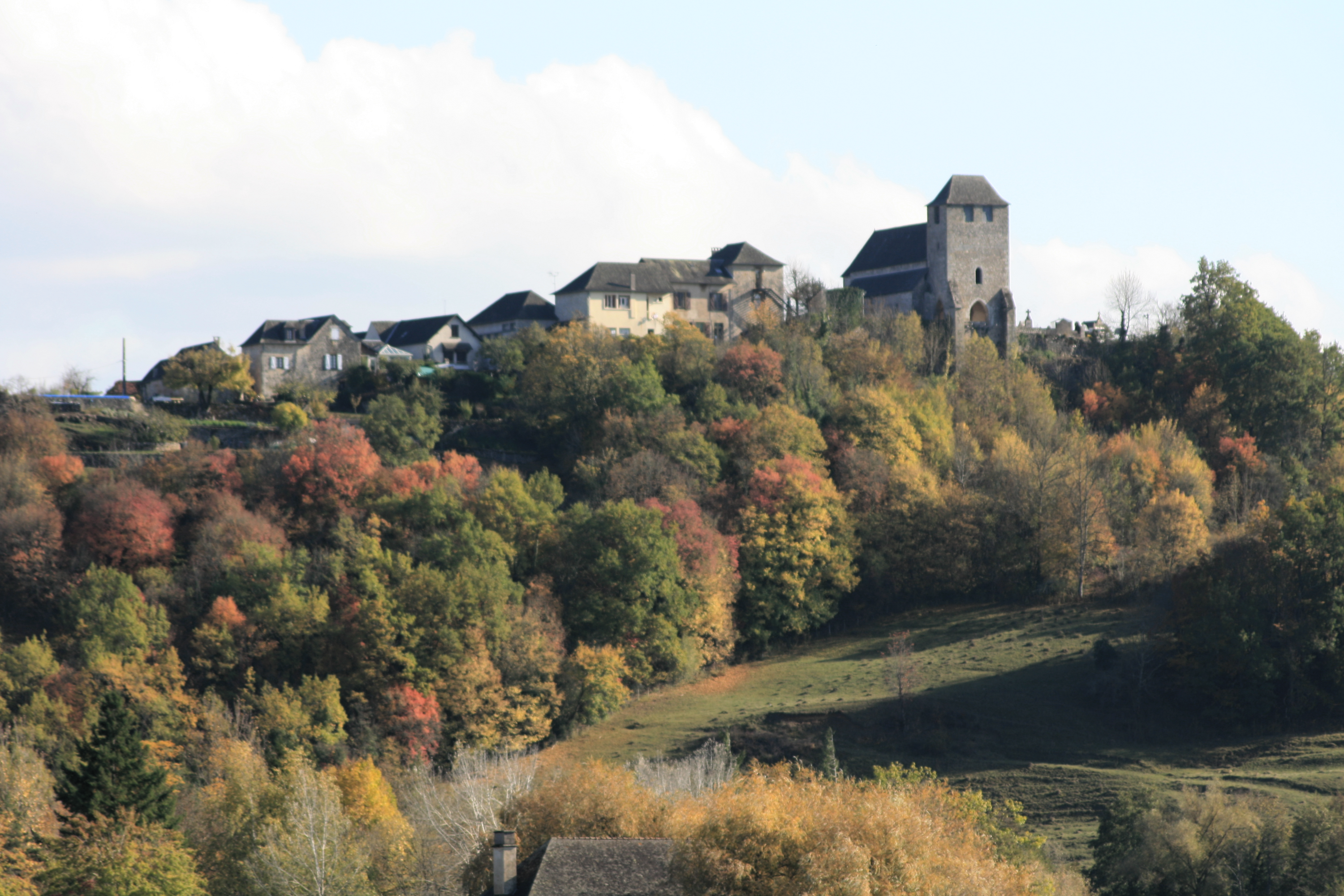 Town of Chasteaux, Corrèze, France